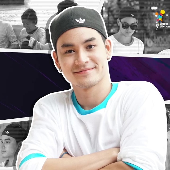 Jirayu La-ongmanee, screen capture from promotional video for Game of Teens